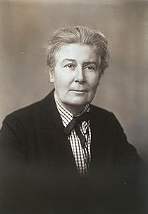 Ellen Newbold LaMotte, ca. 1910-1915